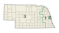 Image adapted from US fed gov't source Category:Congressional districts of Nebraska